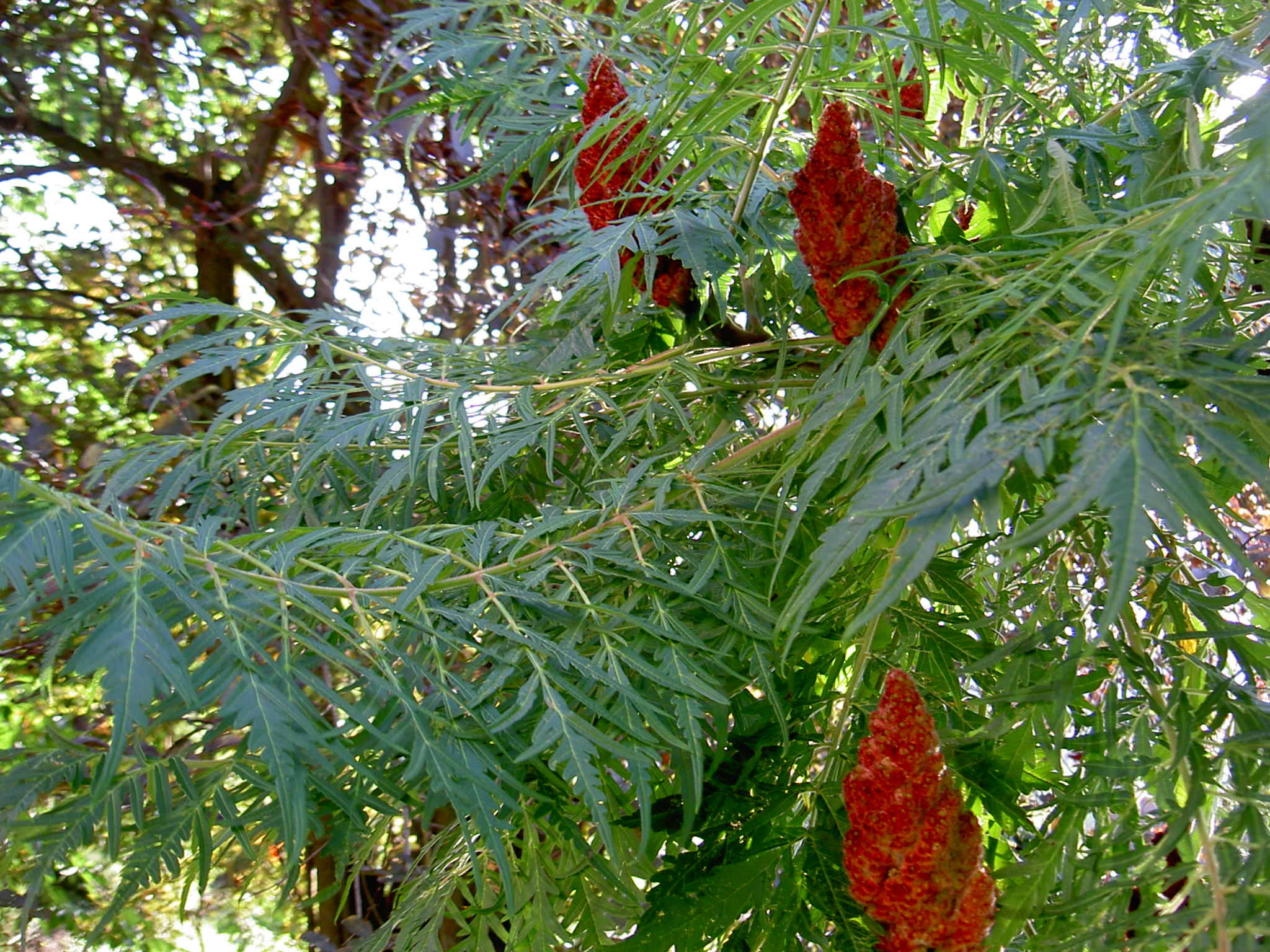 Rhus hirta 'Dissecta' (Rhus typhina 'Dissecta')